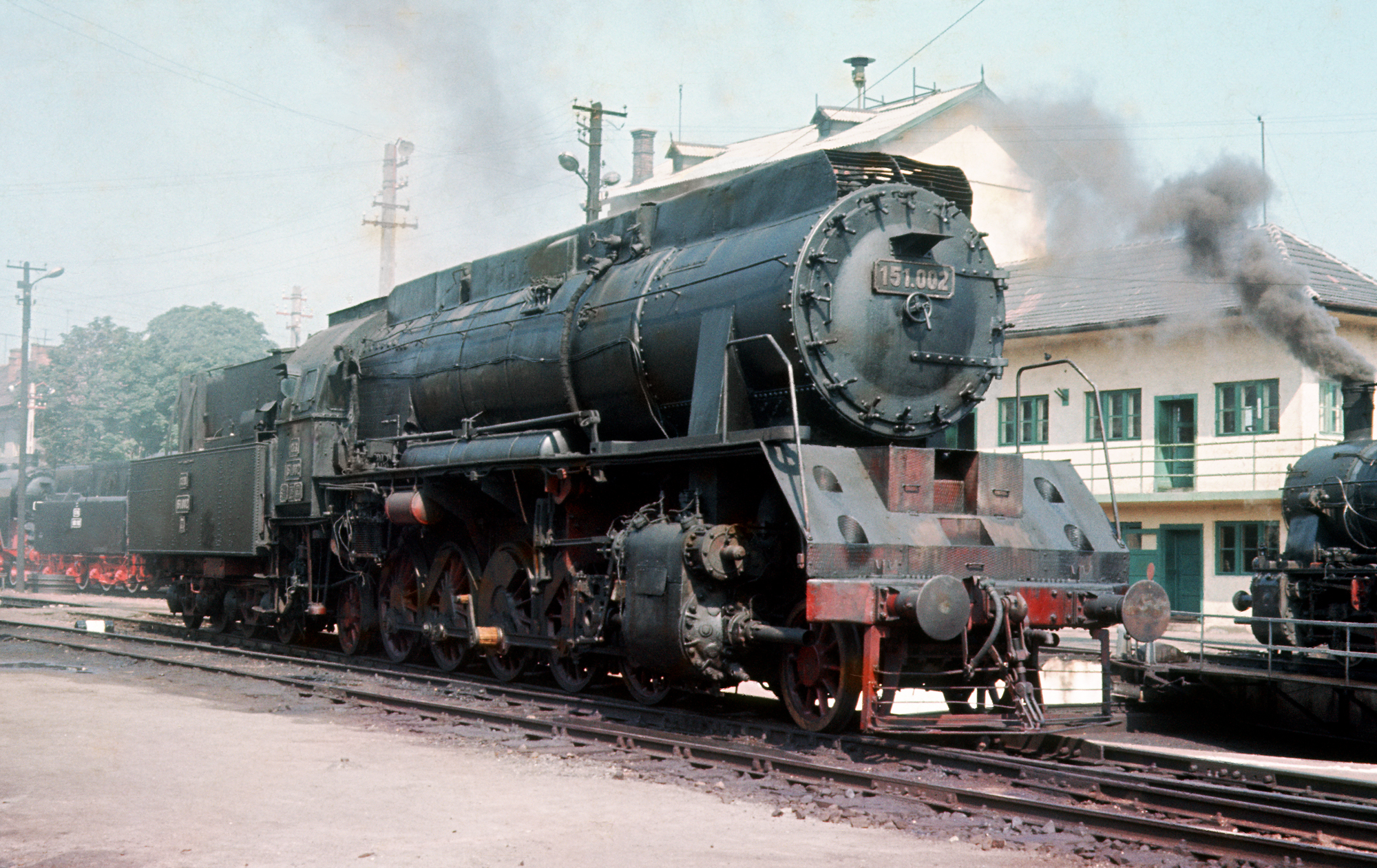 Romanian CFR 2-10-2 151.000 class no. 151.002 awaiting repairs at Cluj Depot